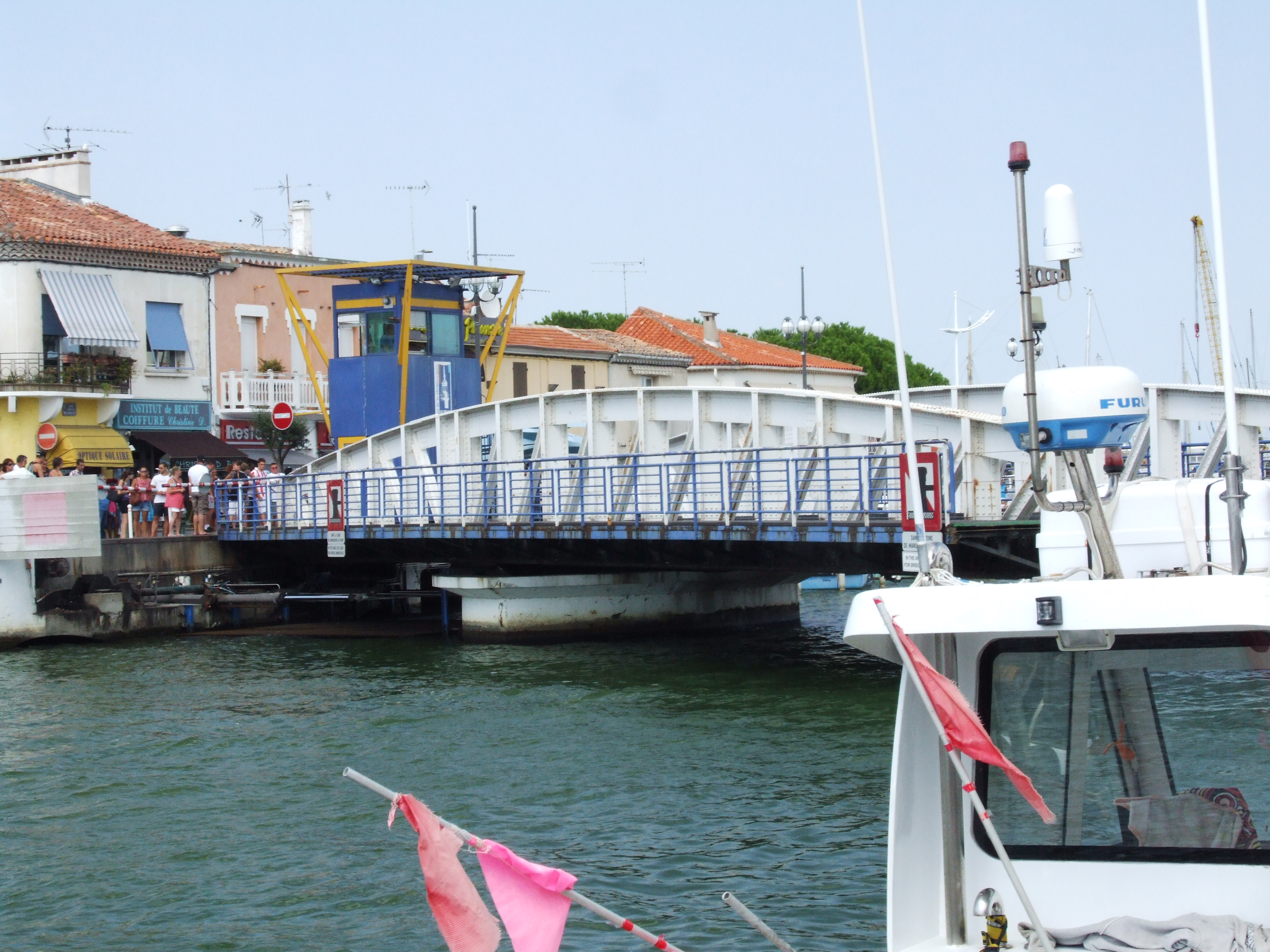 Grau du Roi is a commune in Gard, France. It is the sole Commune in that department to have a Mediterranean frontage. It has an INSEE of 30133 and a postal code of 30240. The channelised Vidourle passes through the village and onto the sea. The port swing bridge open but almost closed, pedestrians behind the barrier.